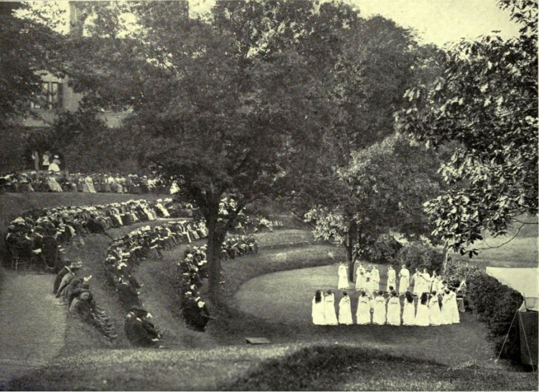 A photograph of a performance of the "Frogs" of Aristophanes at the grounds of old Trinity College. Found in the book: The University of Toronto and its colleges, 1827-1906